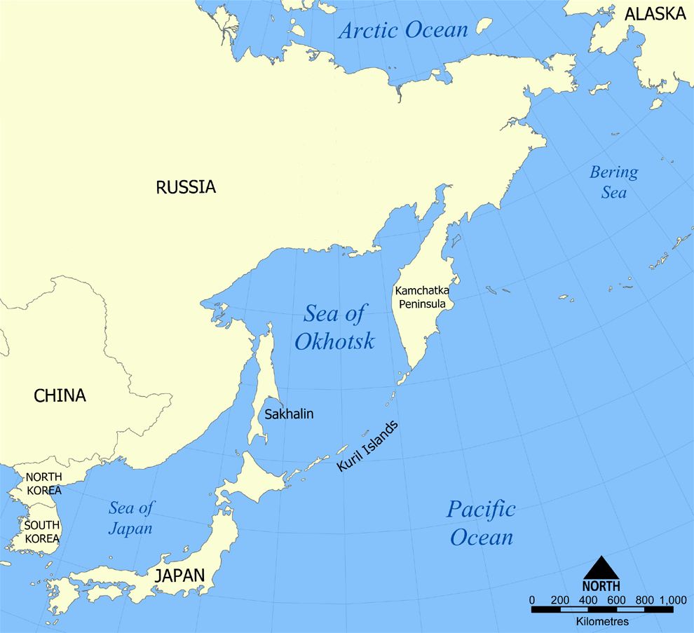 This is a map showing the location of the Sea of Okhotsk, with nation states listed. The sea is bordered by Russia and Japan. Created by NormanEinstein, October 24, 2005.